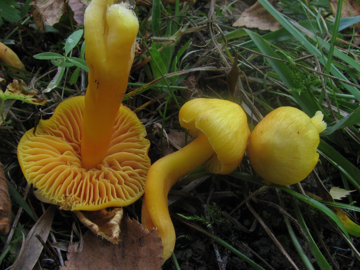 Hygrocybe quieta Location: Gotland, Sweden For more information about this, see the observation page at Mushroom Observer.